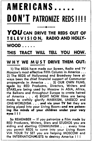 Typical U.S. anticommunist literature of the 1950s, specifically addressing the entertainment industry. Full text: AMERICANS..... DON'T PATRONIZE REDS!!!! YOU CAN DRIVE THE REDS OUT OF TELEVISION, RADIO AND HOLLY- WOOD..... THIS TRACT WILL TELL YOU HOW. WHY WE MUST DRIVE THEM OUT: 1) The REDS have made our Screen, Radio and TV Moscow's most effective Fifth Column in America... 2) The REDS of Hollywood and Broadway have al- ways been the chief financial support of Communist propaganda in America . . . 3) OUR OWN FILMS, made by RED Producers, Directors, Writers and STARS,are being used by Moscow in ASIA, Africa, the Balkans and throughout Europe to create hatred of America . . . 4) RIGHT NOW films are being made to craftily glorify MARXISM, UNESCO and ONE-WORLDISM . . . and via your TV Set they are being piped into your Living Room—and are poison- ing the minds of your children under your very eyes ! ! ! So REMEMBER — If you patronize a Film made by RED Producers, Writers, Stars and STUDIOS you are aiding and abetting COMMUNISM . . . every time you permit REDS to come into your Living Room VIA YOUR TV SET you are helping MOSCOW and the INTERNATIONALISTS to destroy America ! ! !